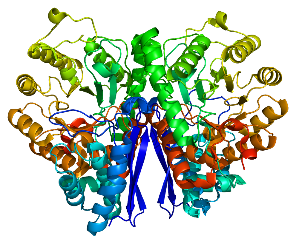 Structure of the ENO2 protein. Based on PyMOL rendering of PDB 1te6.